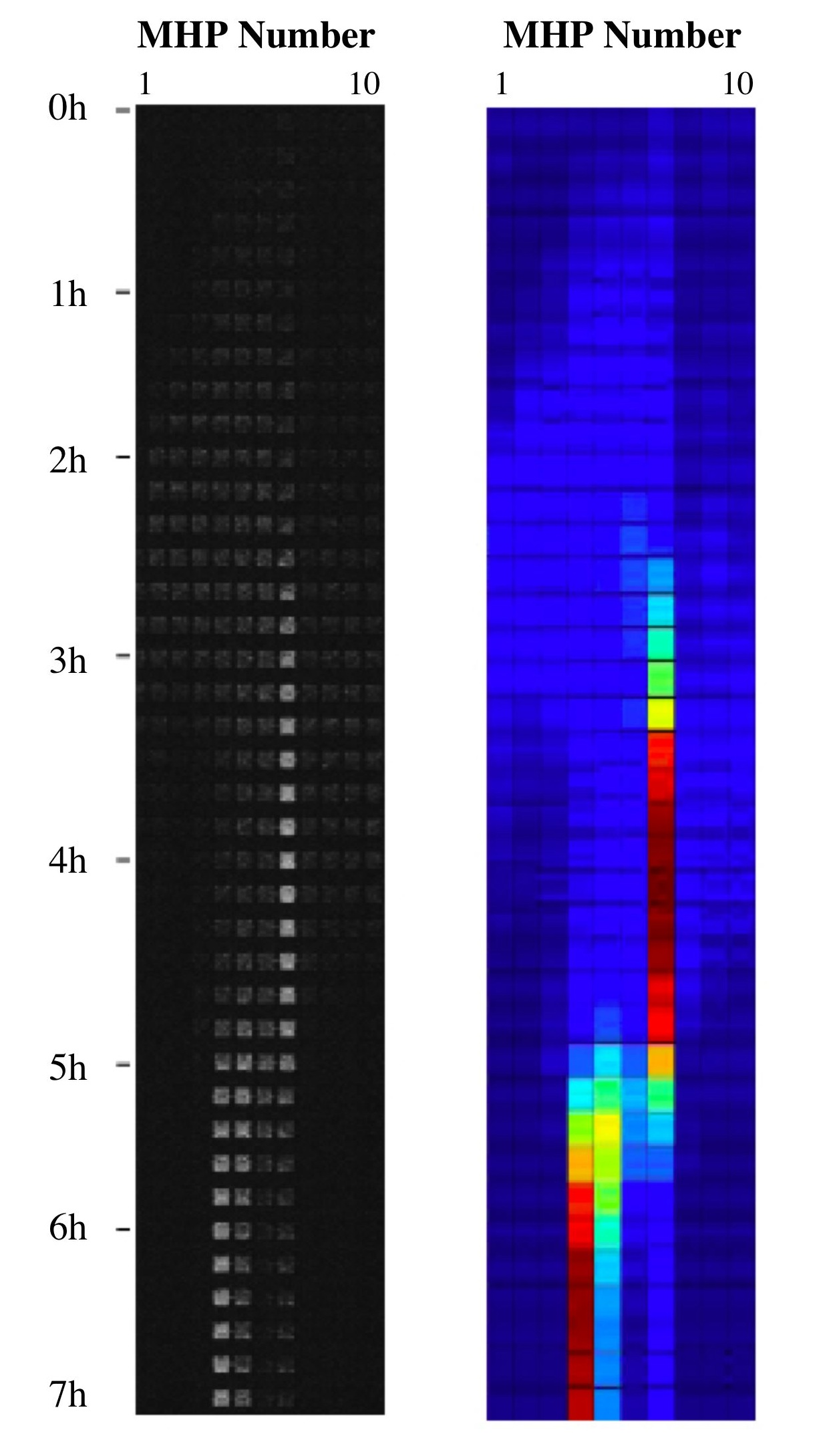 E. coli Metapopulation for an array of 85 (only 10 are shown) Micro Habitat Patches (MHPs) for 7 hours in time. Frames (taken every 10 minutes) are stack from top to bottom as a kymograph. Cells are expressing green fluorescent protein through a high copy plasmid. Left pannel: original data of fluorescent intensity. Right Pannel: intra MHP averaged fluorescent intensity for each MHP. Color map ranges from red (~ 10.000 cels) to blue (few cells). MHPs are 100 microns wide and 25 microns deep. 2 micron-wide corridors 50 micron long connect MHPs as a one dimensional patchy landscape.